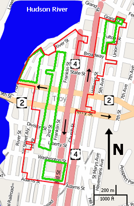 Map showing Central Troy Historic District boundaries in Troy, NY, USA This map may be incomplete, and may contain errors. Don't rely solely on it for navigation.